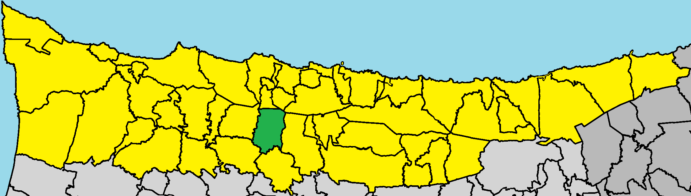 Pileri in Kyrenia District (de jure).